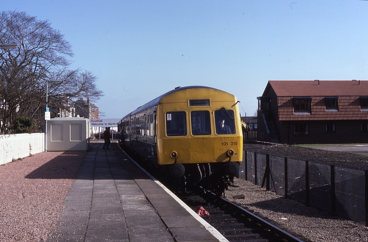 On several occasions I attempted to cover the North Berwick branch in Scotland but failed to cover it during the years when I "cleared off" virtually the whole of the UK passenger rail network. But on 29 March 1986, I finally got there! The short branch from Drem has been single track for many years seeing through trains to and from Edinburgh and beyond. Seen here is class 101 Metropolitan Cammell (Met-Cam) 3-car set comprising of 51241, 59047 & 53176. At the time British Rail Scottish Region had most of their DMU fleet in pre-formed sets, this one being 101.315. Train is the 10:04 to Edinburgh Waverley.